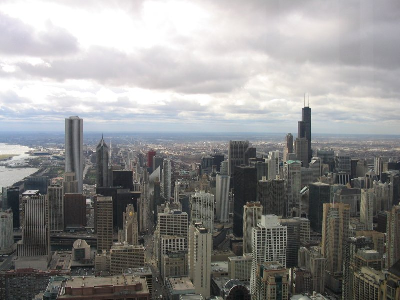 Sears Tower among other skyscrapers